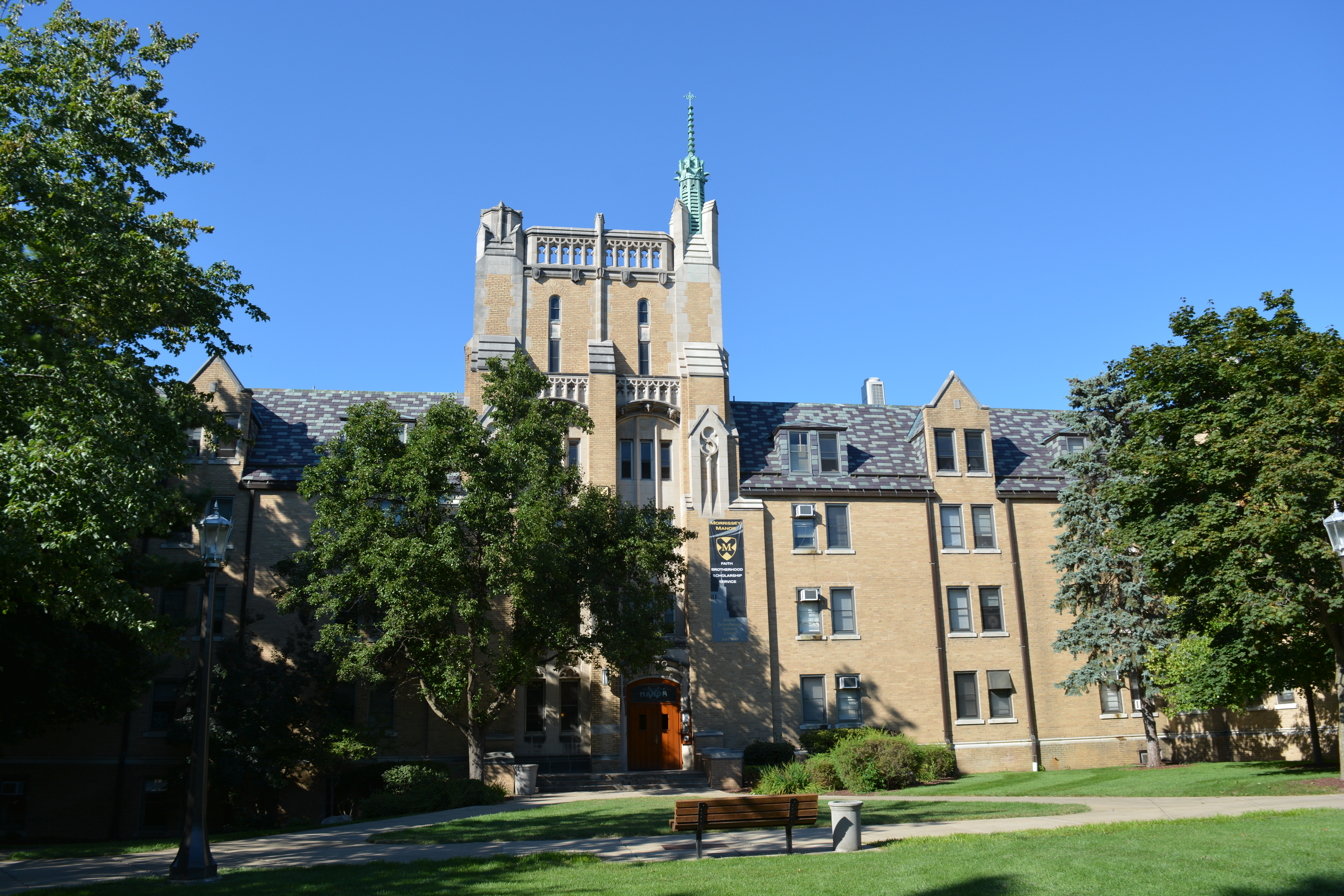 Campus of the University of Notre Dame